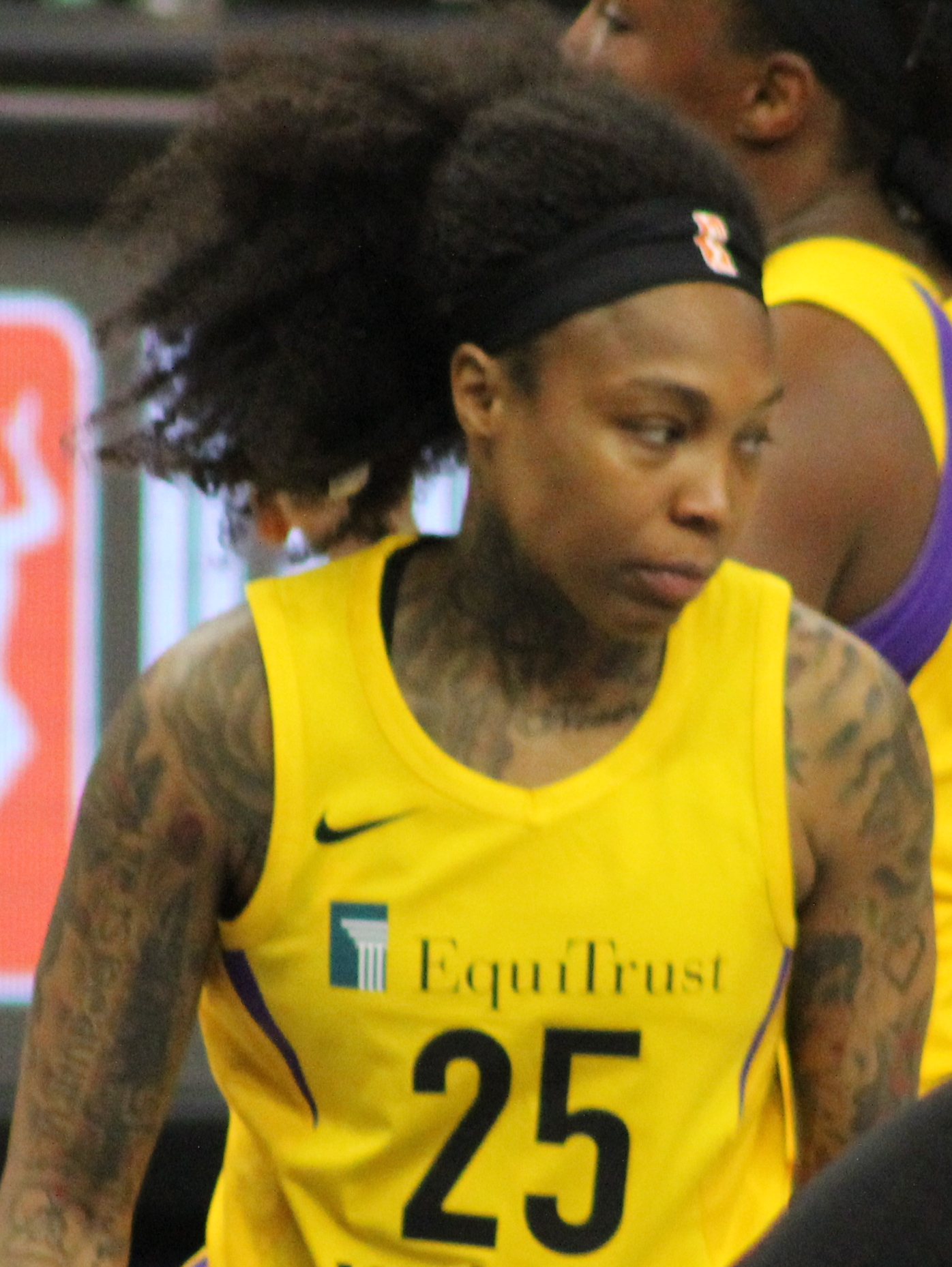 Cappie Pondexter of the Los Angeles Sparks in 2018